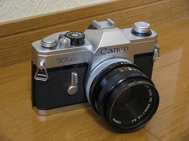 Canon TLb SLR camera with Canon FD 50 mm f/1.8 lens